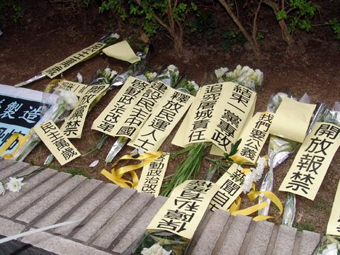 HK protest against Chinese mainland crackdown on jasmine revolution